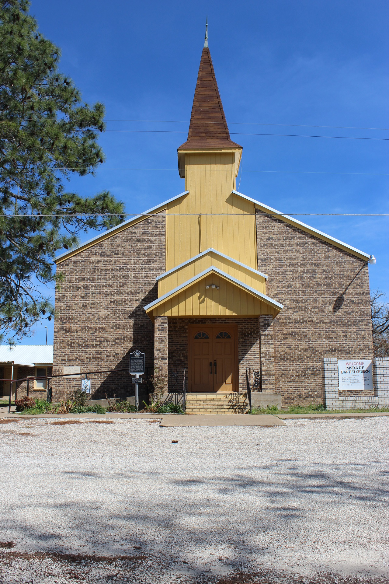 McDade Baptist Church. McDade Baptist Church This congregation was organized on July 18, 1880, under the leadership of the Rev. J. D. Wright, who also served as first pastor. Originally known as the McDade Baptist Church of Christ, the fellowship worshiped in a union church building shared with other denominations. In 1900, the Baptists purchased the Union Building from the other congregations, and it served as the church's sanctuary until 1948, when an army chapel, purchased from nearby Camp Swift, was moved to this site. With an emphasis on worship and education, the McDade Baptist church has been a strong part of the community's cultural and religious history. (2002) #12936